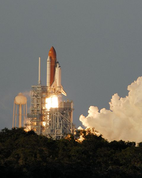 Launch of Space Shuttle Atlantis on STS-117